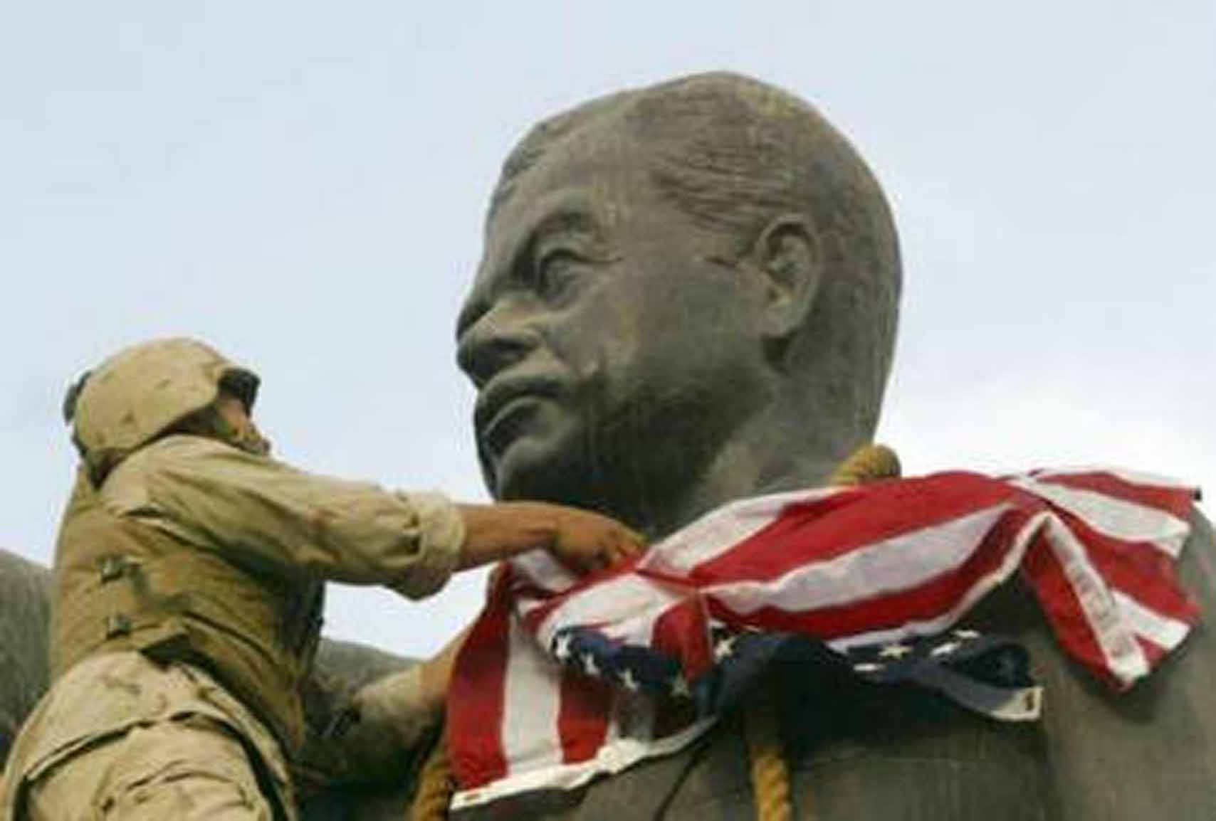 Former Cpl. Edward Chin places the U.S. Flag over a statue of Saddam signifing the liberation of the Iraqi people in 2003 during Operation Iraqi Freedom.